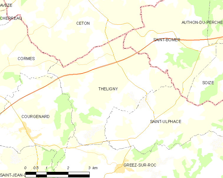 Map of French municipality